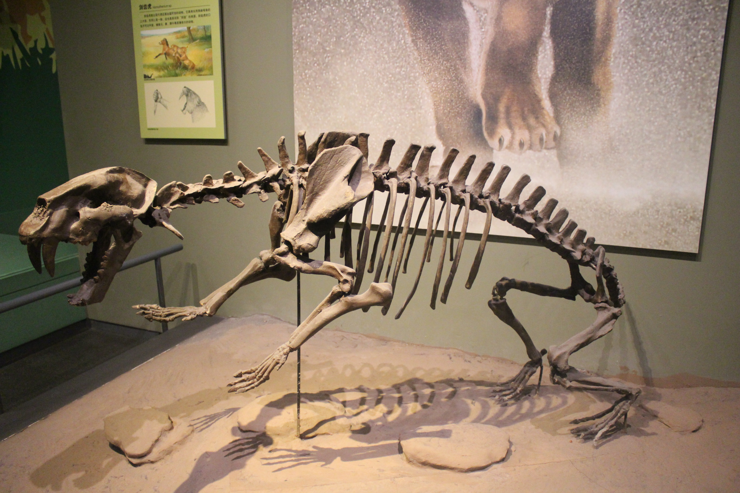 Skeletal mount of Homotherium sp. on display at the Tianjin Natural History Museum.